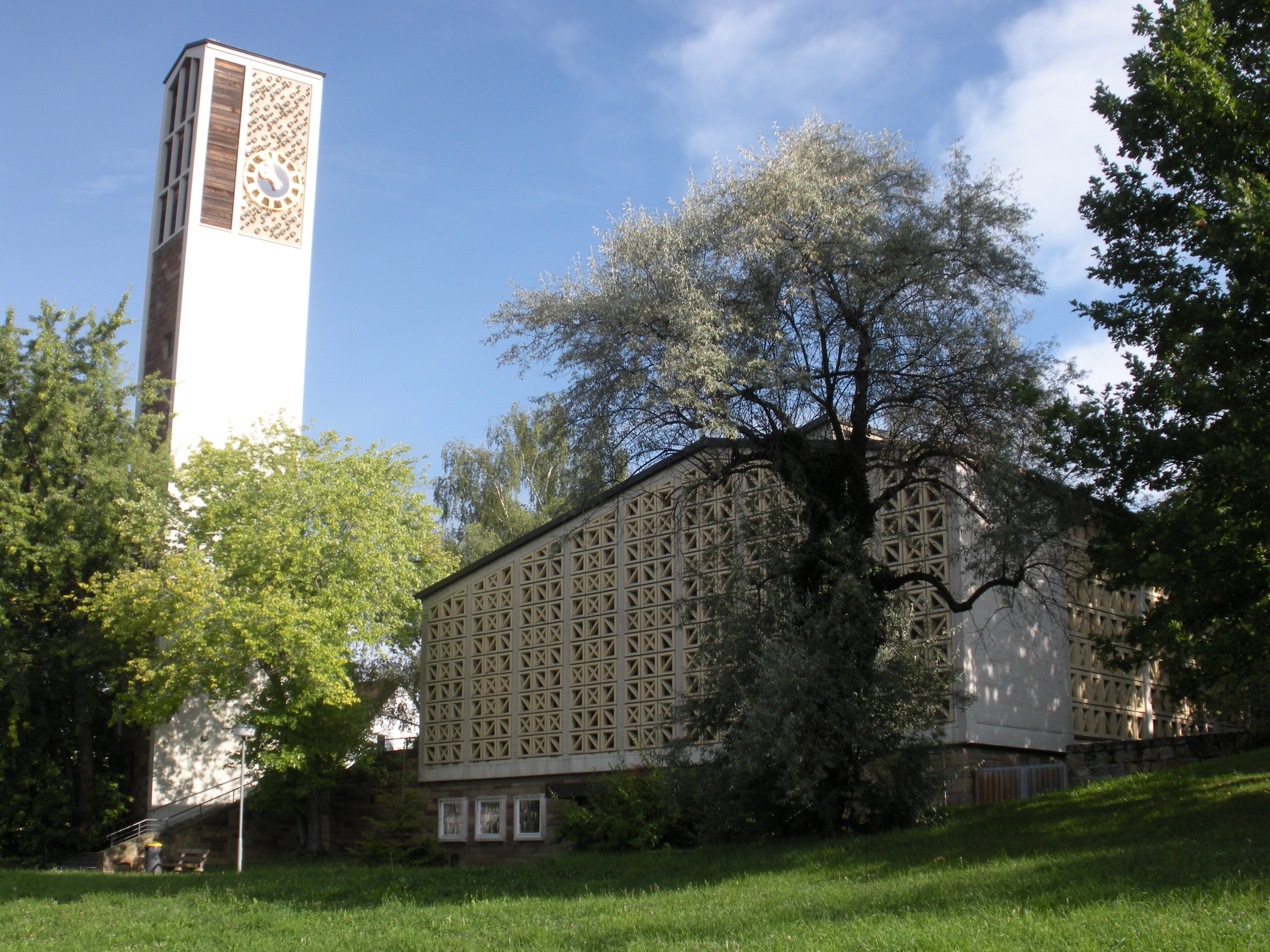 Protestant Andreae Church in Stuttgart-Bad Cannstatt